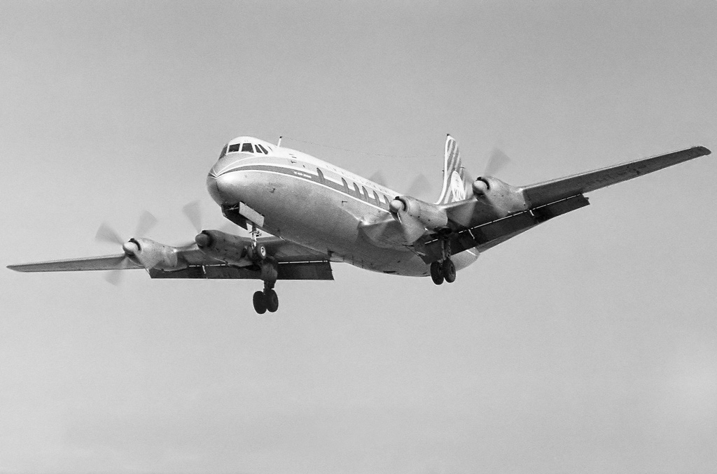 KLM Vickers Viscount on finals at Prague Airport